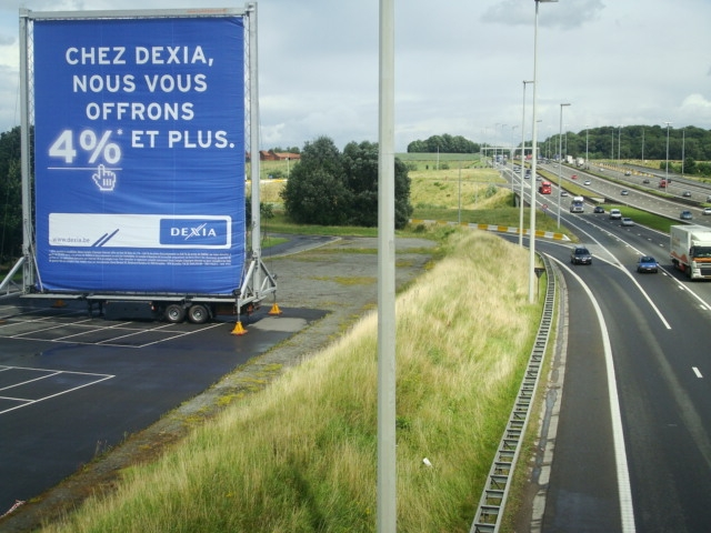 Skyboard Mediafield Campaign Dexia Belgium July 2008